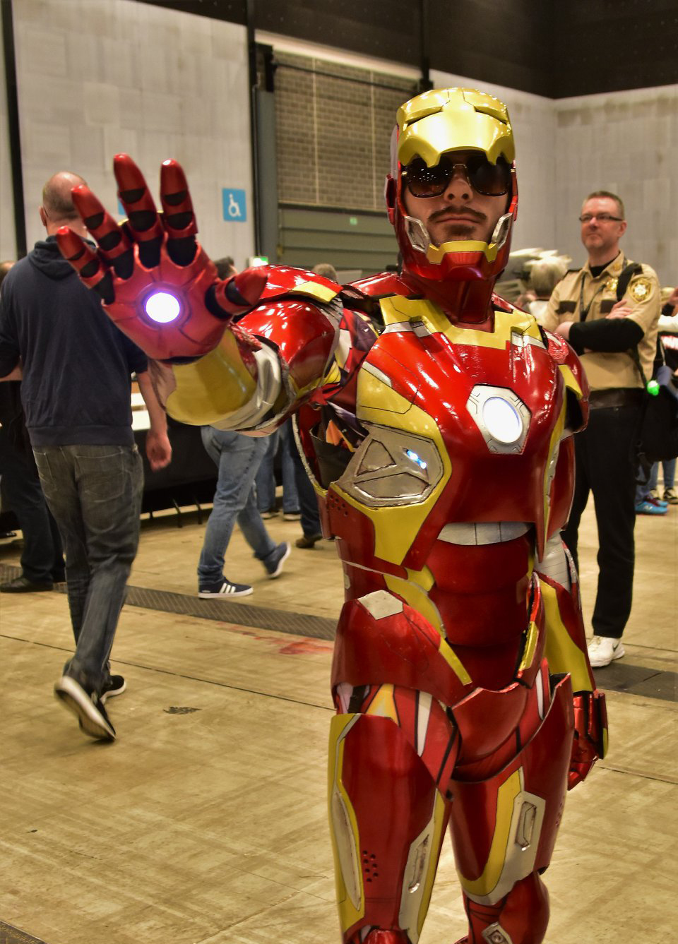 An Iron Man cosplay at Comic Con Liverpool, March 2020.